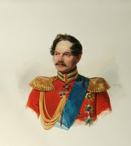 Meyendorf, Yegor Fyodorovich